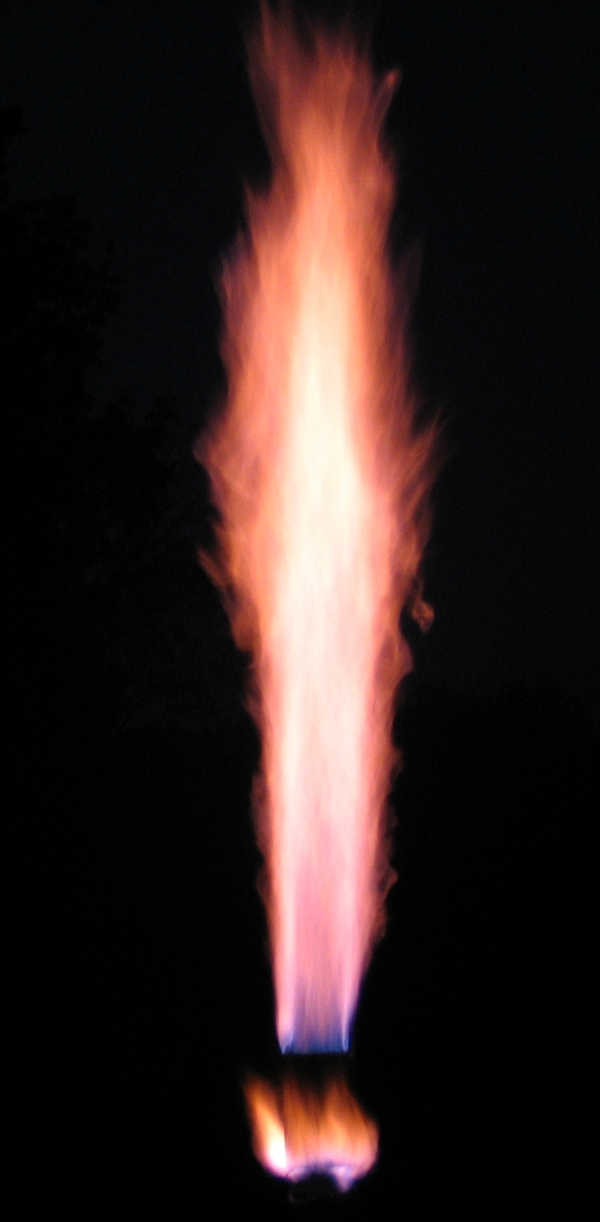 This is a wood gas flame from a vehicle gasifier. This gas is rich in hydrogen and carbon monoxide.